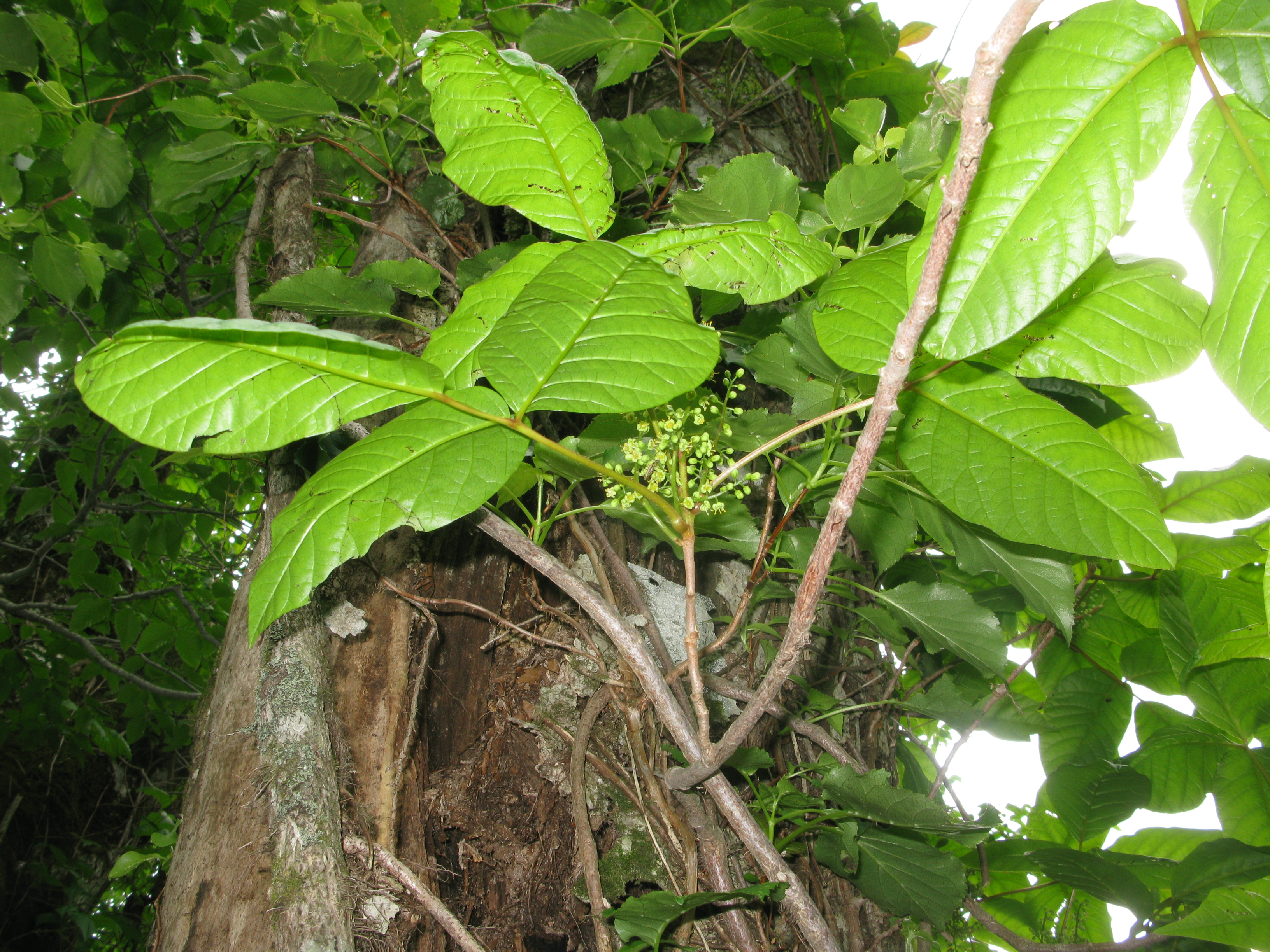 Toxicodendron orientale, male flowers, Mount Nishi-Azuma, Fukushima pref., Japan